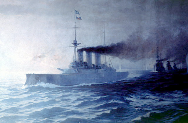 Elli naval battle, painting by Vasiileios Chatzis